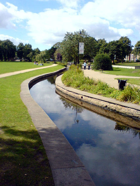 Titchfield Park, Mansfield A lovely "green space" in Mansfield that has seen a recent revamp and a Green Flag award. The only fault I can pick is that the huge concrete pipes and old blue tractor that I spent many happy hours playing in and on as a child have been removed. Still, I doubt that they would have gone with the current scheme.